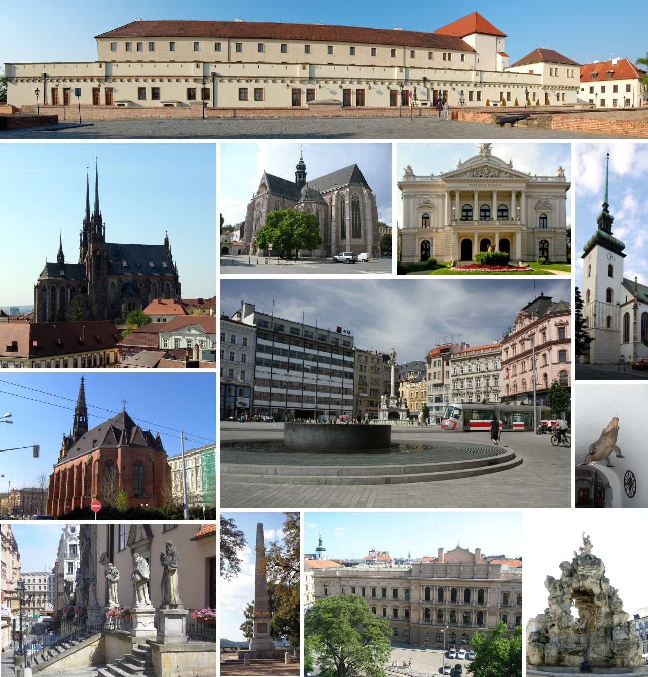 Montage of Brno, Czech Republic This image was created with Hugin.